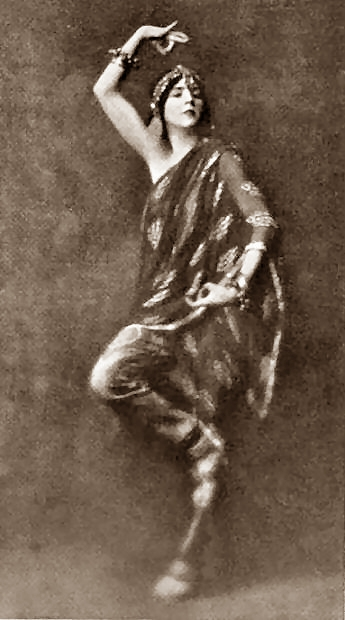 Dancer Evan-Burrows Fontaine